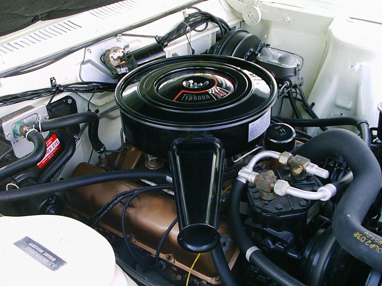 Engine bay in a 1967 AMC Marlin with a "Typhoon" 343 cu in (5.6 L) 280 hp (209 kW; 284 PS) high-compression 4-barrel V8.